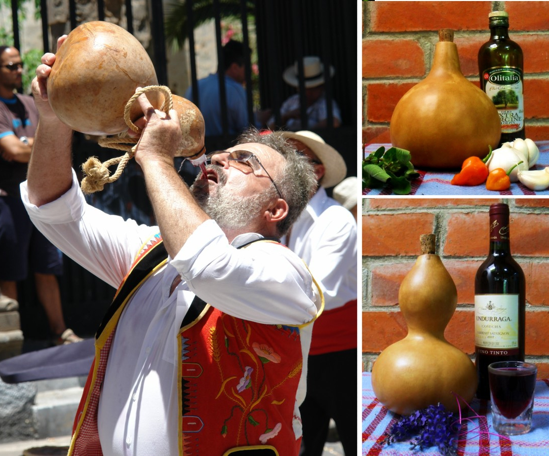 Lagenaria siceraria - bottle gourds of different shapes and sizes